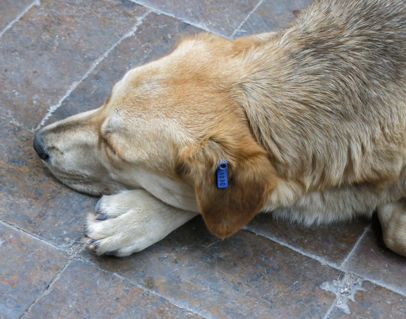 Homeless dog No 1230 in Antalya. (Turkey)